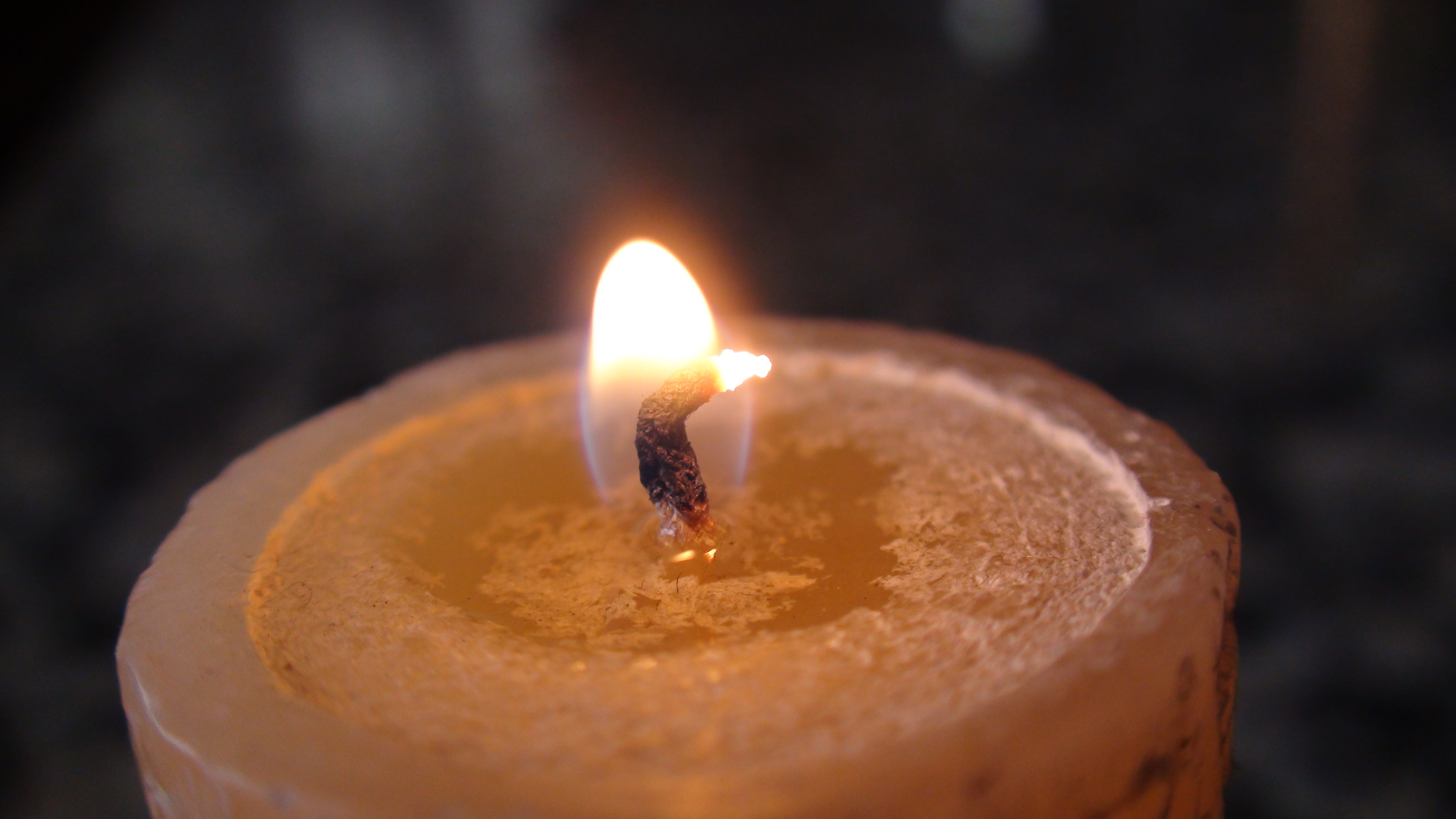 A macro picture of a candle burning.